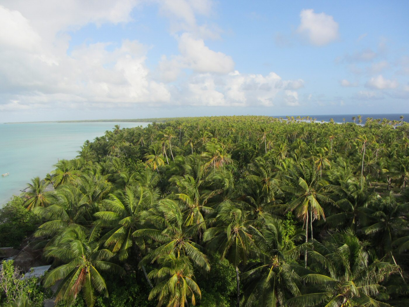 View over Abaiang in Northern direction. Image shot from the spire of the Church of Our Lady of the Rosary in Koinawa.